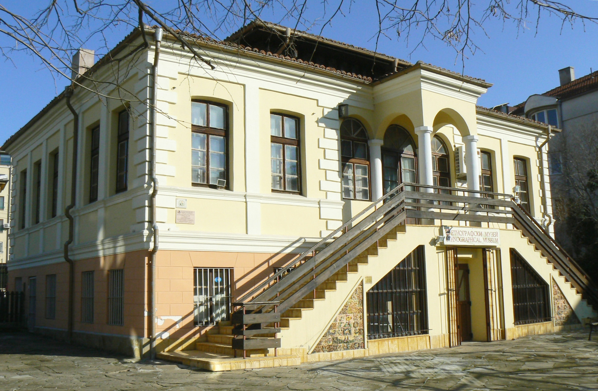 Burgas ethnographic museum